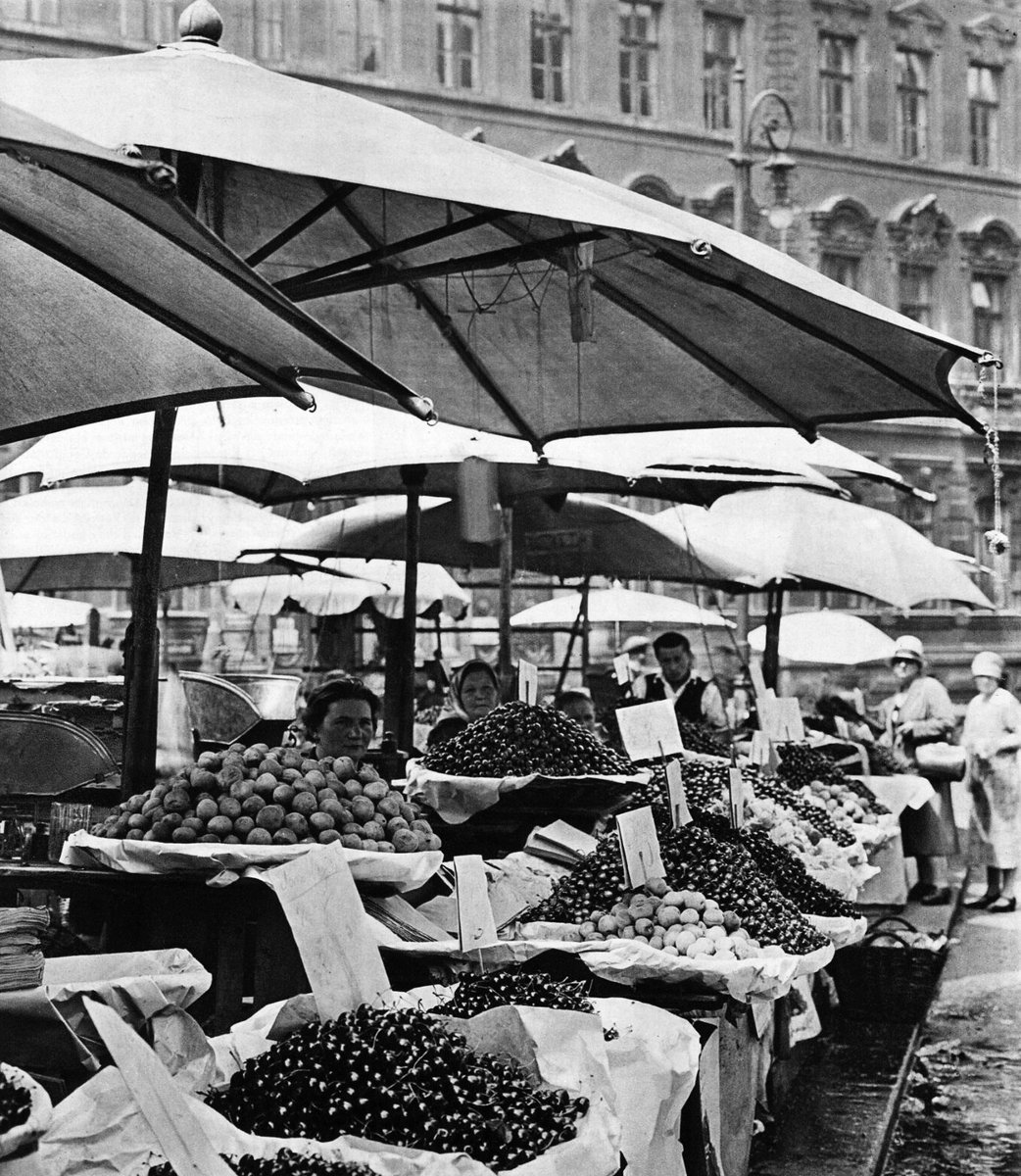 Prague Square Ovocný trh (Fruit Market) in July 1927.